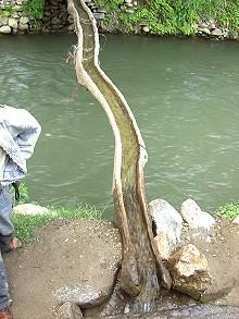 An old traditional tree trunk used as a water pipe in Gulbahar, 75km north of Afghan Kapital